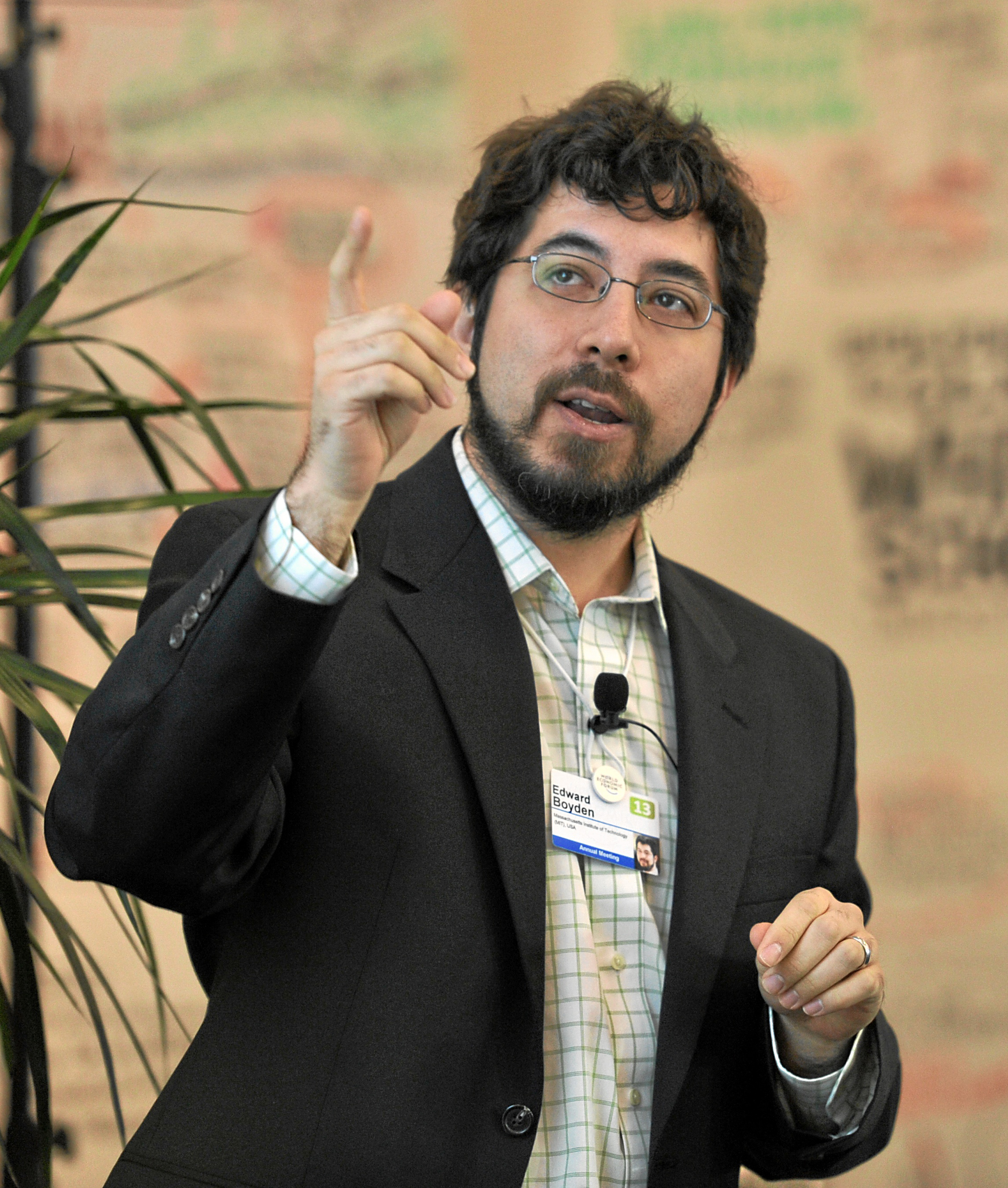 DAVOS/SWITZERLAND, 26JAN13 - Edward Boyden, Associate Professor, Media Lab and McGovern Institute, Massachusetts Institute of Technology (MIT), USA speaks during the Session 'Science Uncovered with Nature Magazine' at the Annual Meeting 2013 of the World Economic Forum in Davos, Switzerland, January 26, 2013.. . Copyright by World Economic Forum. . Urs Jaudas